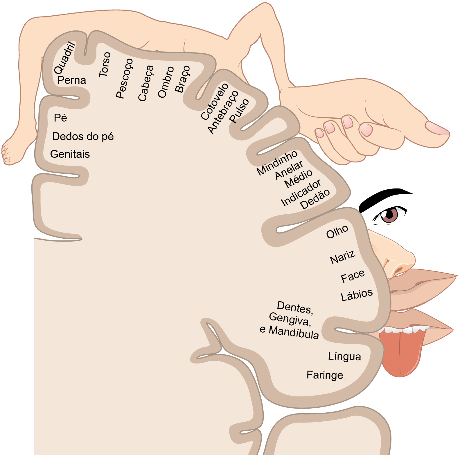 Illustration from Anatomy & Physiology, Connexions Web site. Jun 19, 2013.